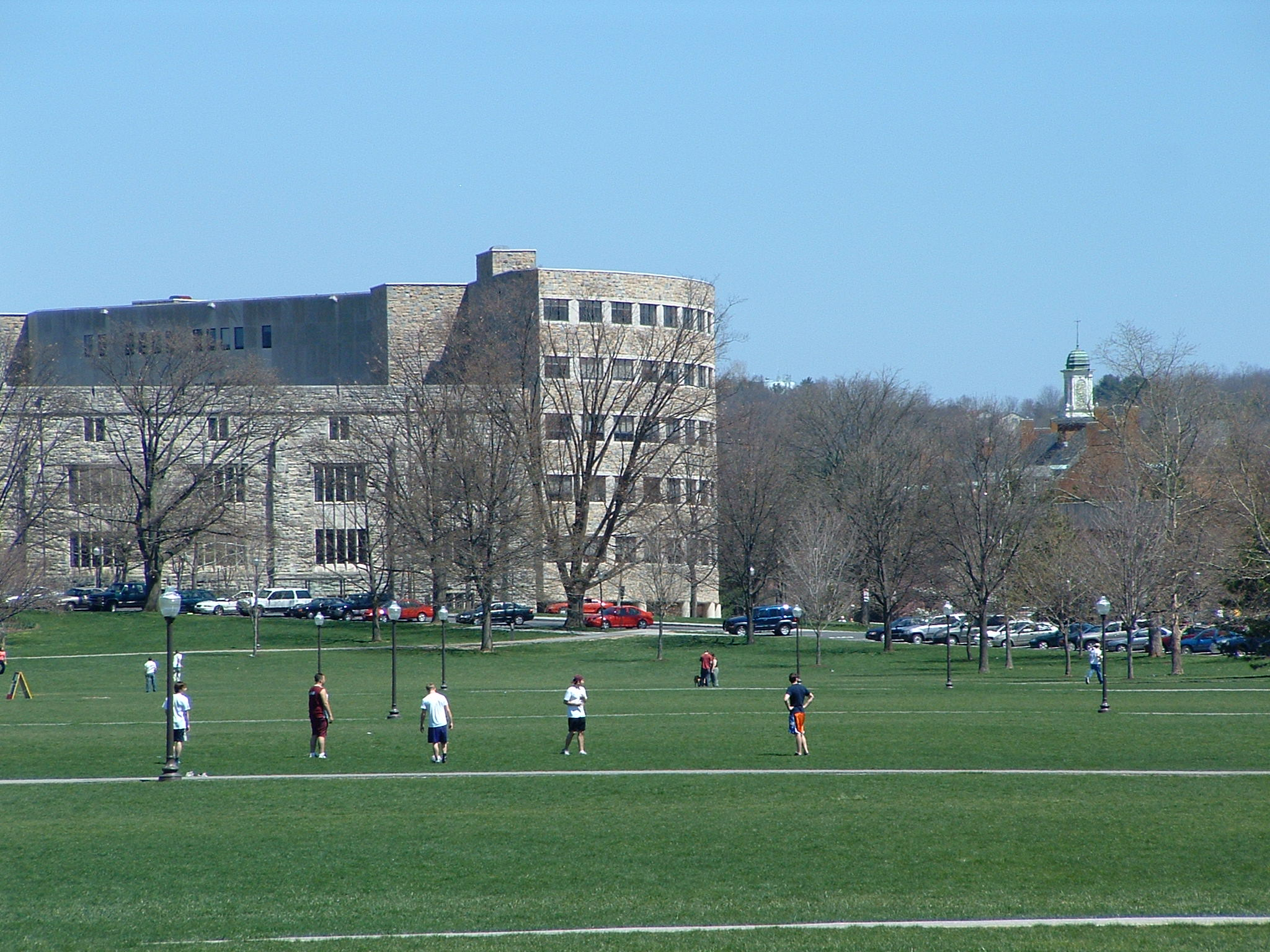 Virginia Tech's Newman Library taken from the drillfield